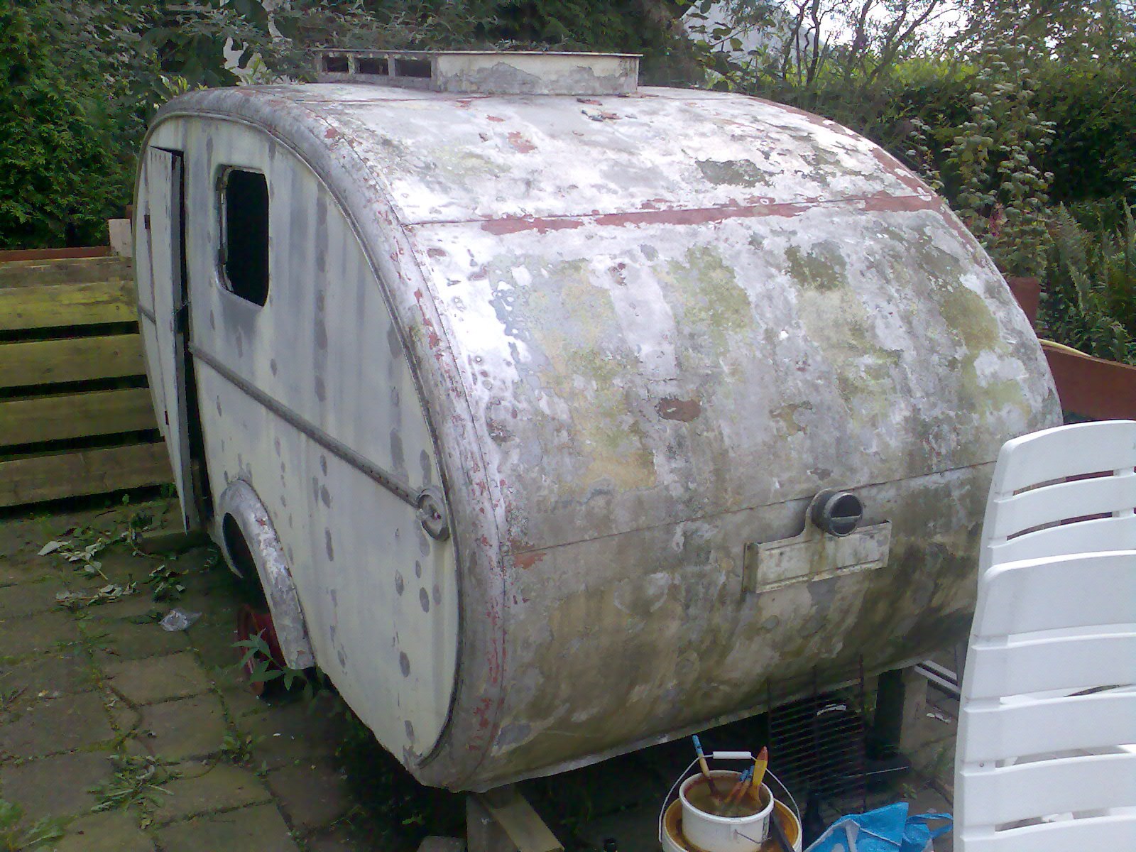 This is an original prototype of a SMV caravan. Found on a junkyard in Sweden. Brought to The Netherlands for restoration.